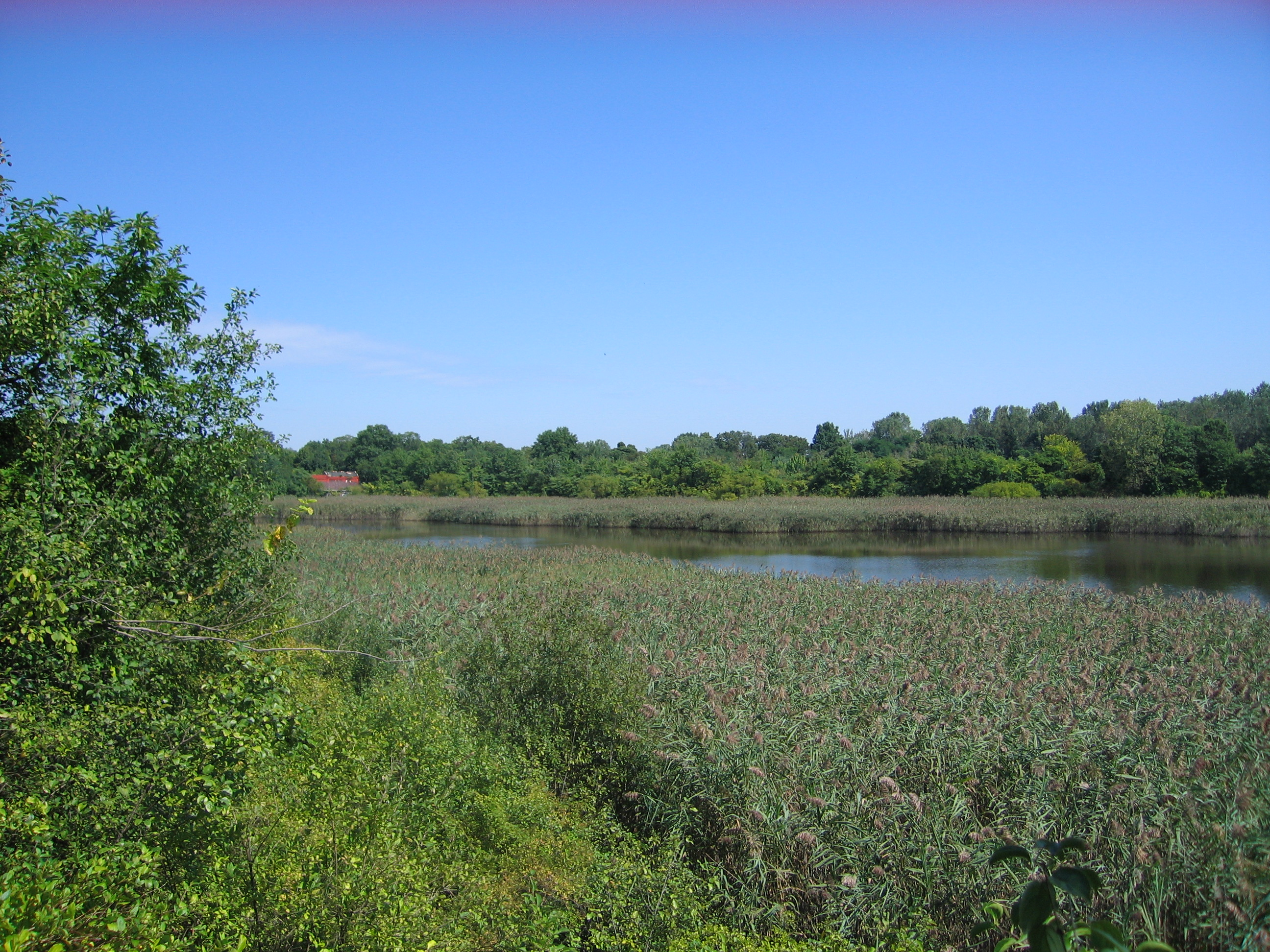 Ridgewood Reservoir, Brookly/Queens, New York City